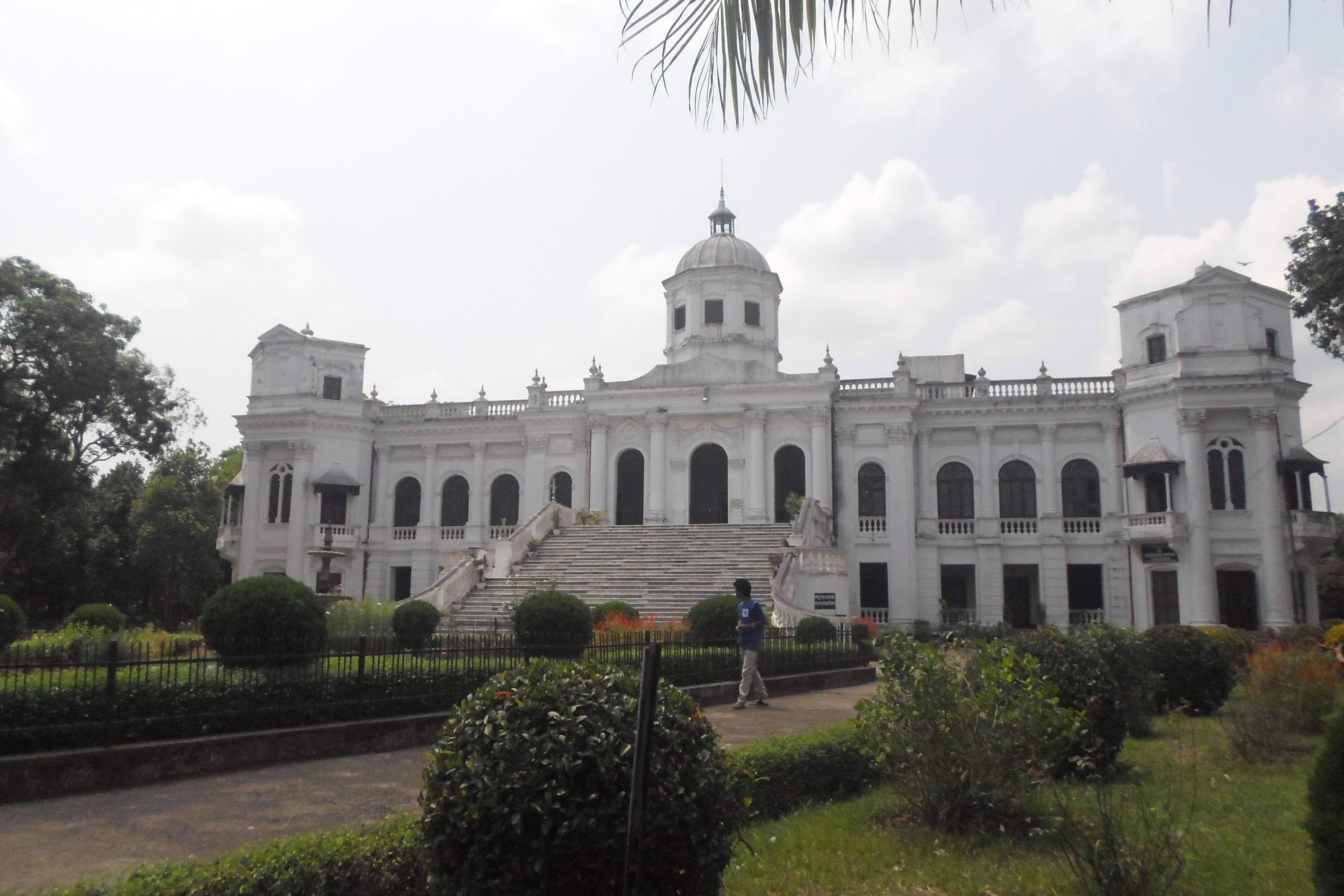 Tajhat Palace